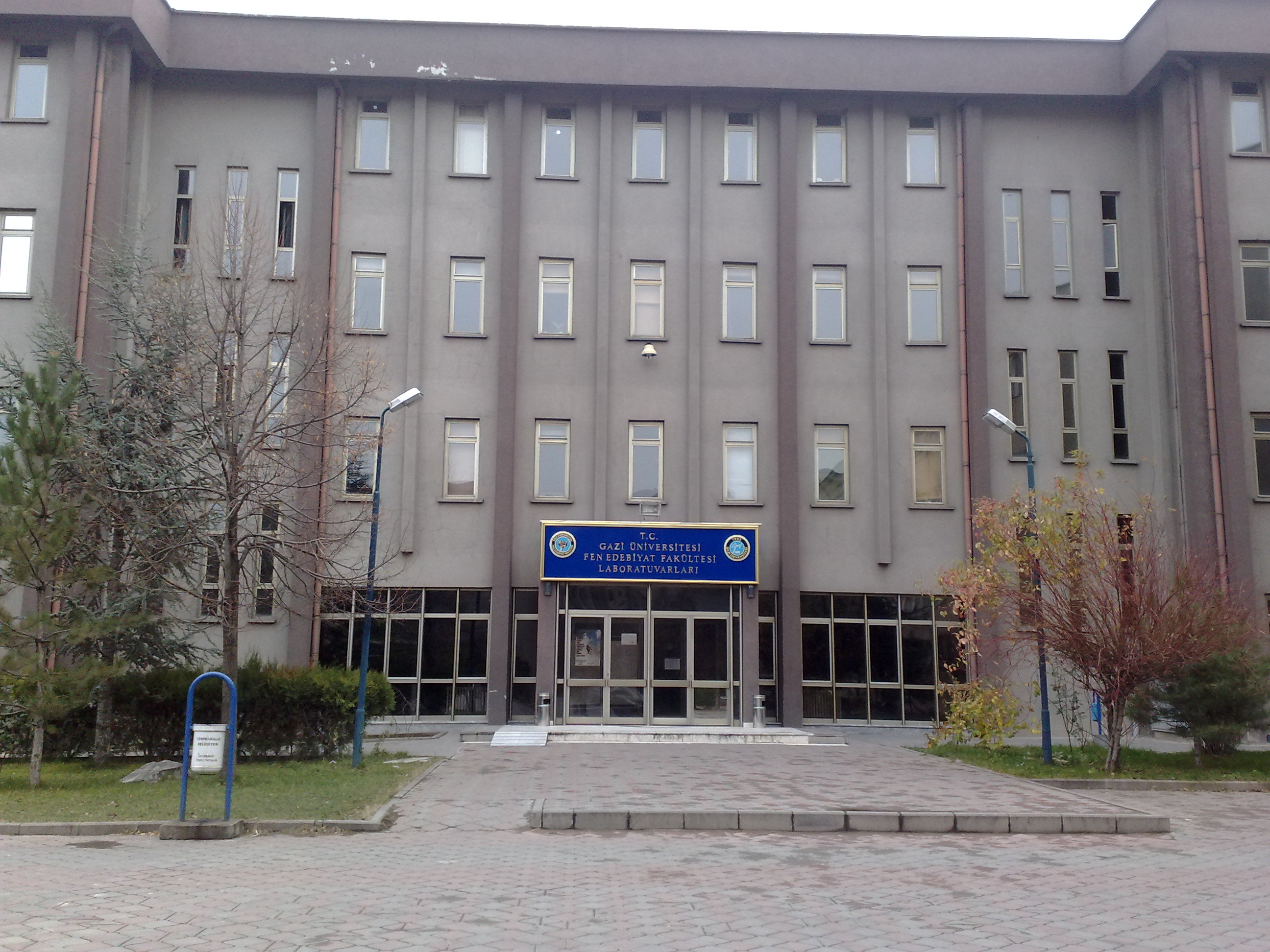 Laboratories of Gazi University Faculty of Science and Literature.